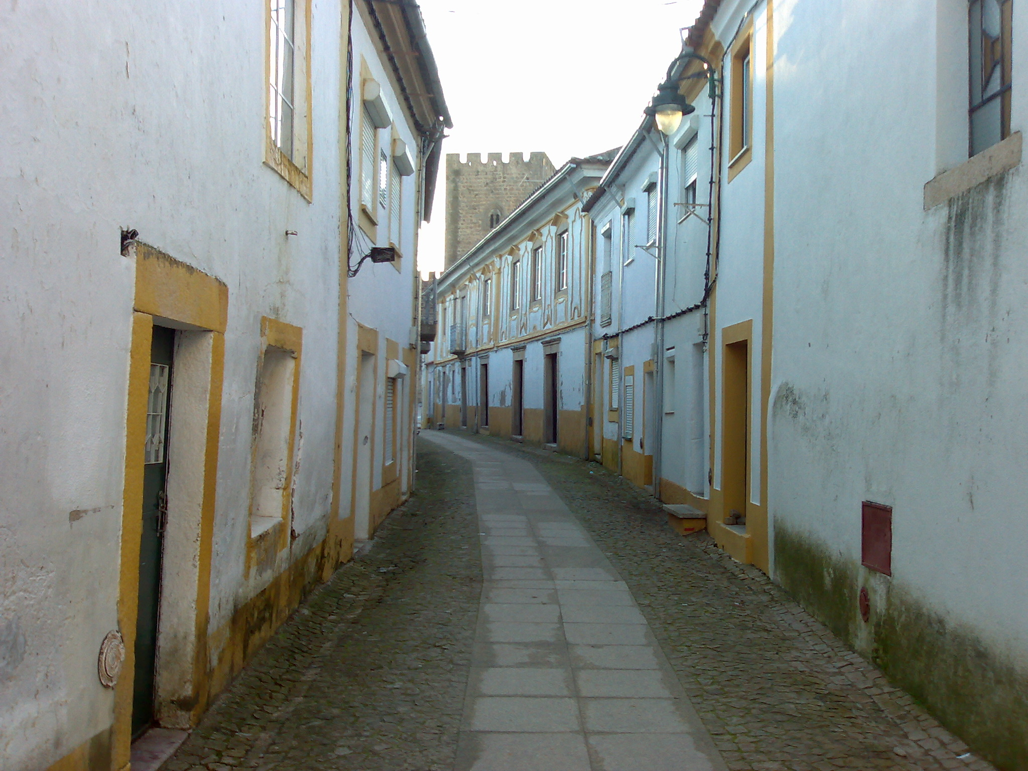 Amieira do Tejo, Nisa, Portugal.